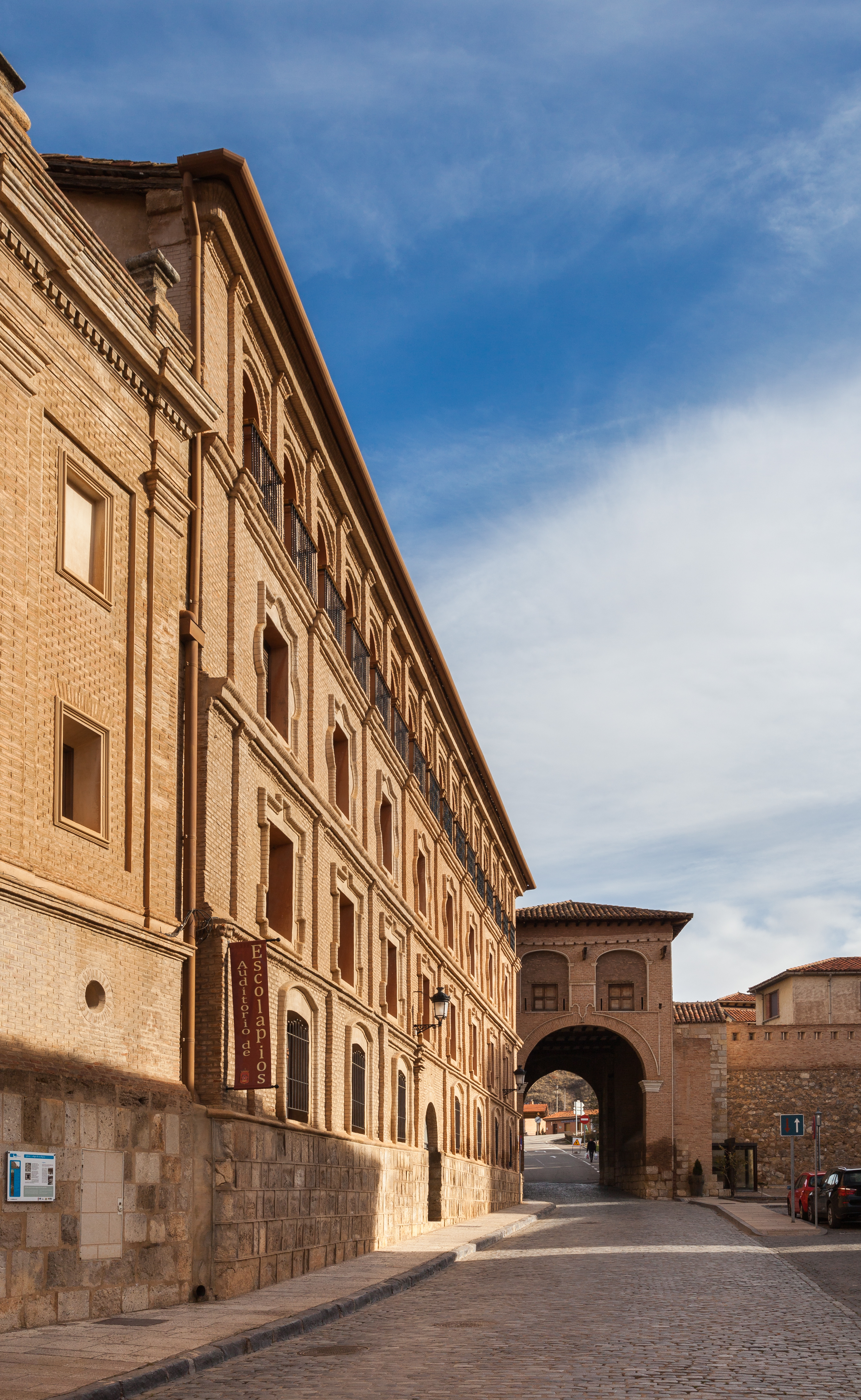 Auditorio de Escolapios, Daroca, Zaragoza, Spain